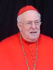 His eminence Godfried Card. Danneels